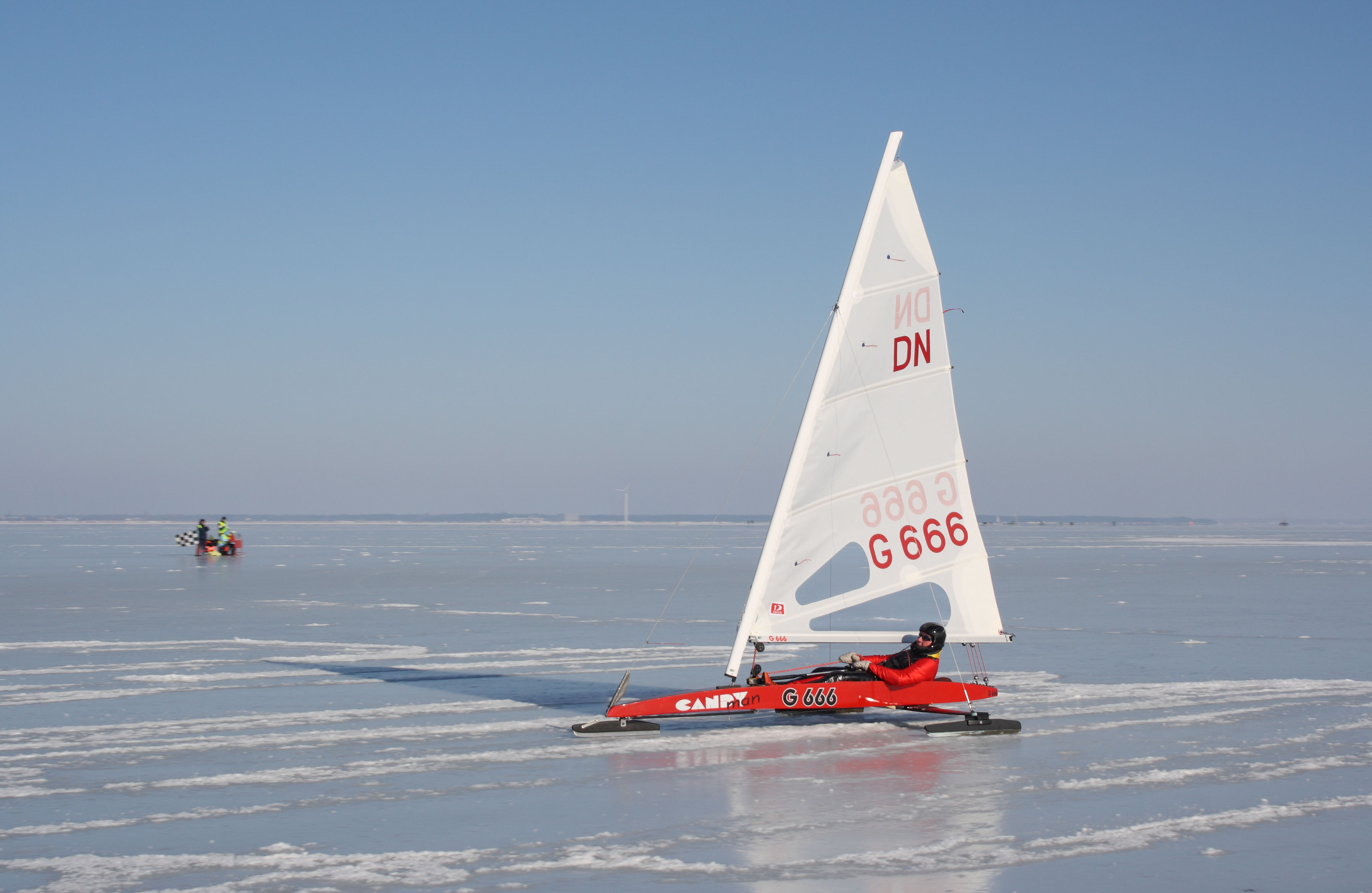 Ice yachting DN European Championship 2011, Nasva, Estonia. Torsten Siems.